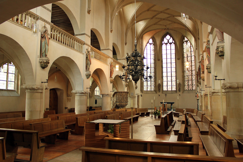 Muenster, St. Petri, interior view